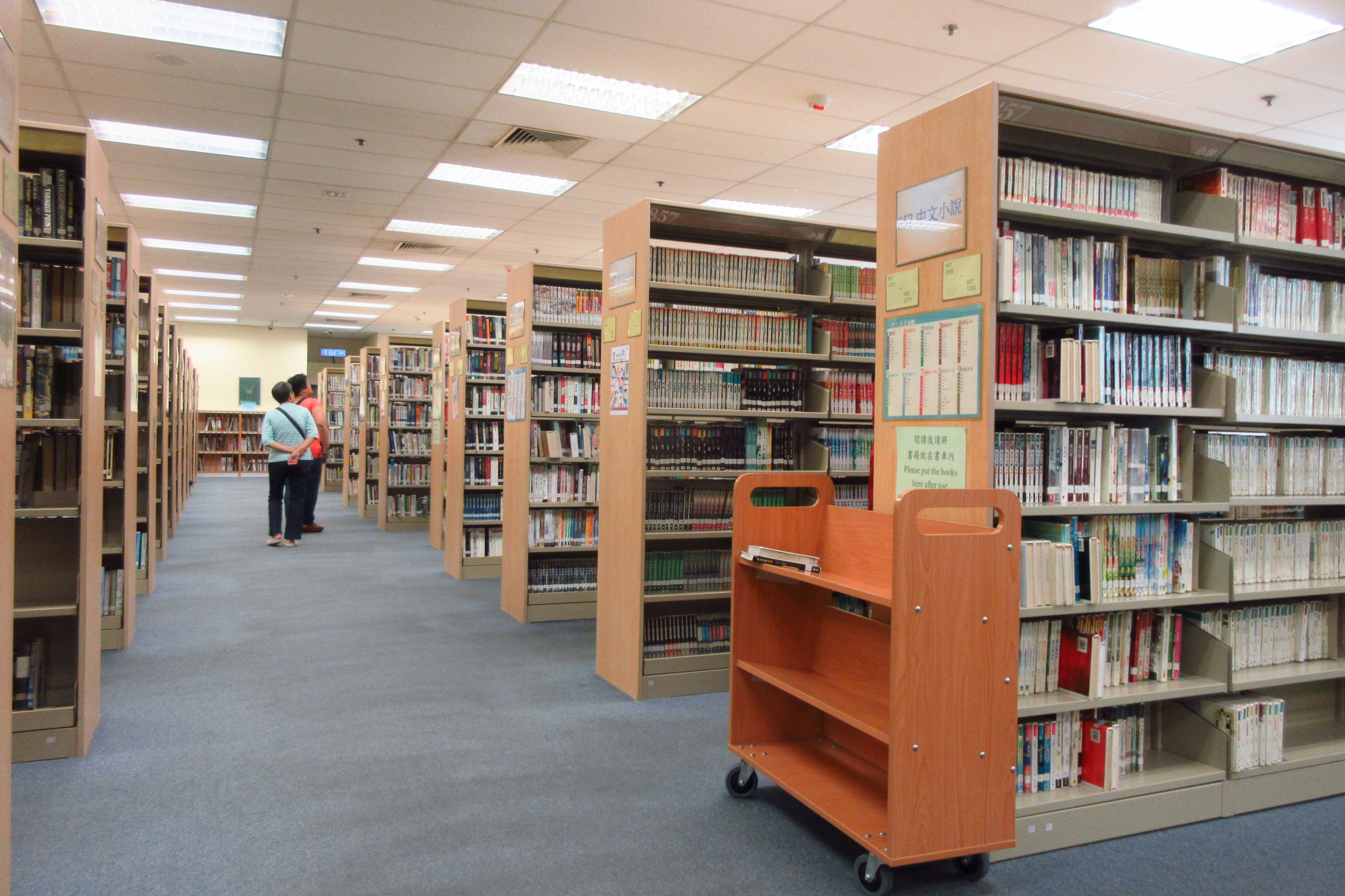 HK STT 石塘咀公共圖書館 Shek Tong Tsui Public Library interior in April 2018